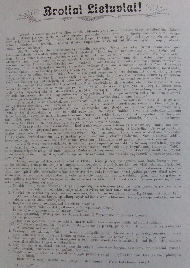 Proclamation of Vincas Kudirka in 1897. Tittle Broliai Lietuviai reads Lithuanian brothers